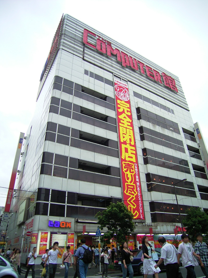 LaOX Personal Computer Shop Akihabara Tokyo Japan